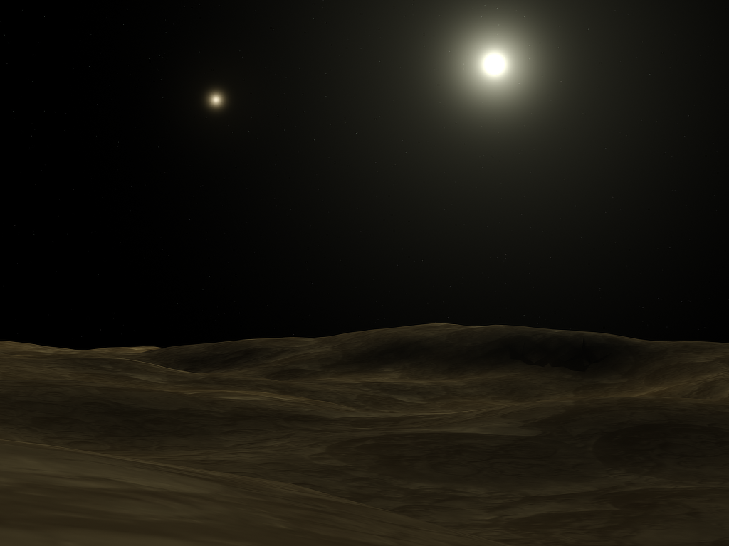 This image was created in Lightwave, it depicts the view from a hypothetical planet orbiting Alpha Centauri A, Alpha Centauri B is clearly seen in the background, as the dimmer star.